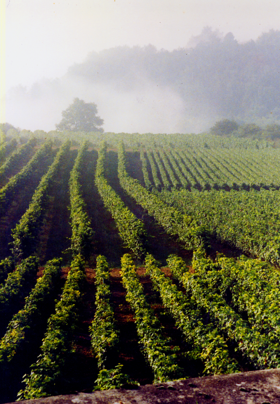 The wide spaced rows are Pinot Noir, and the more closely packed are Gamay.